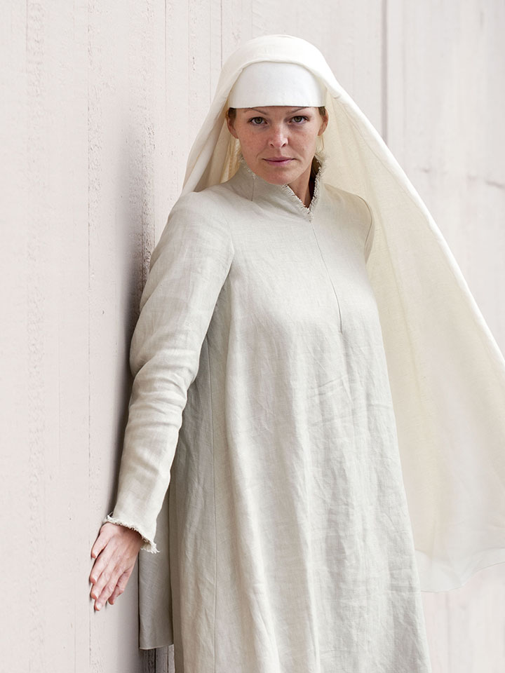 Elin Rombo as Sister Blanche in Karmelitsystrarna (Dialogues of the Carmelites) in a 2011 production at the Royal Swedish Opera.